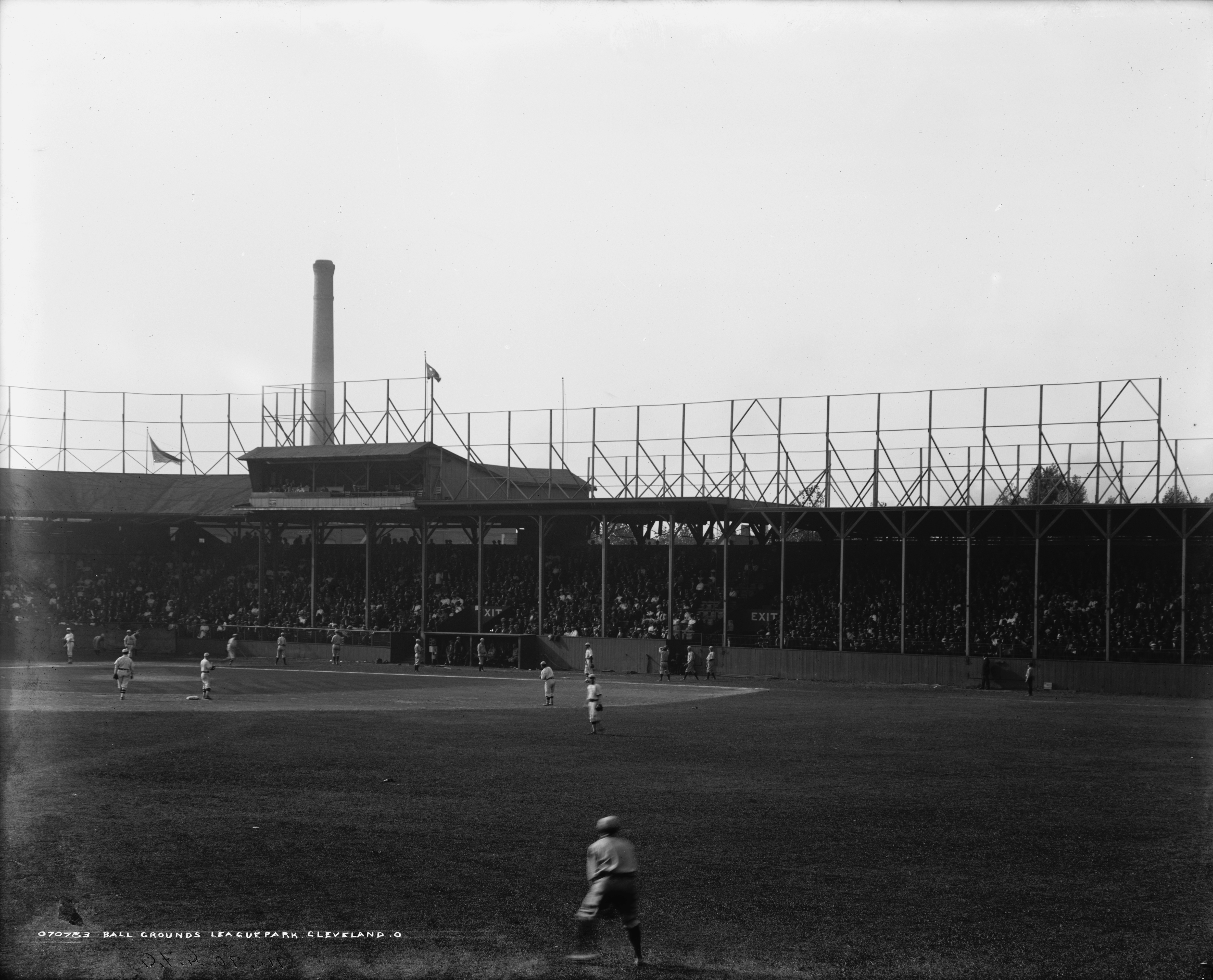 Interior of League Park in Cleveland, Ohio, circa 1905.